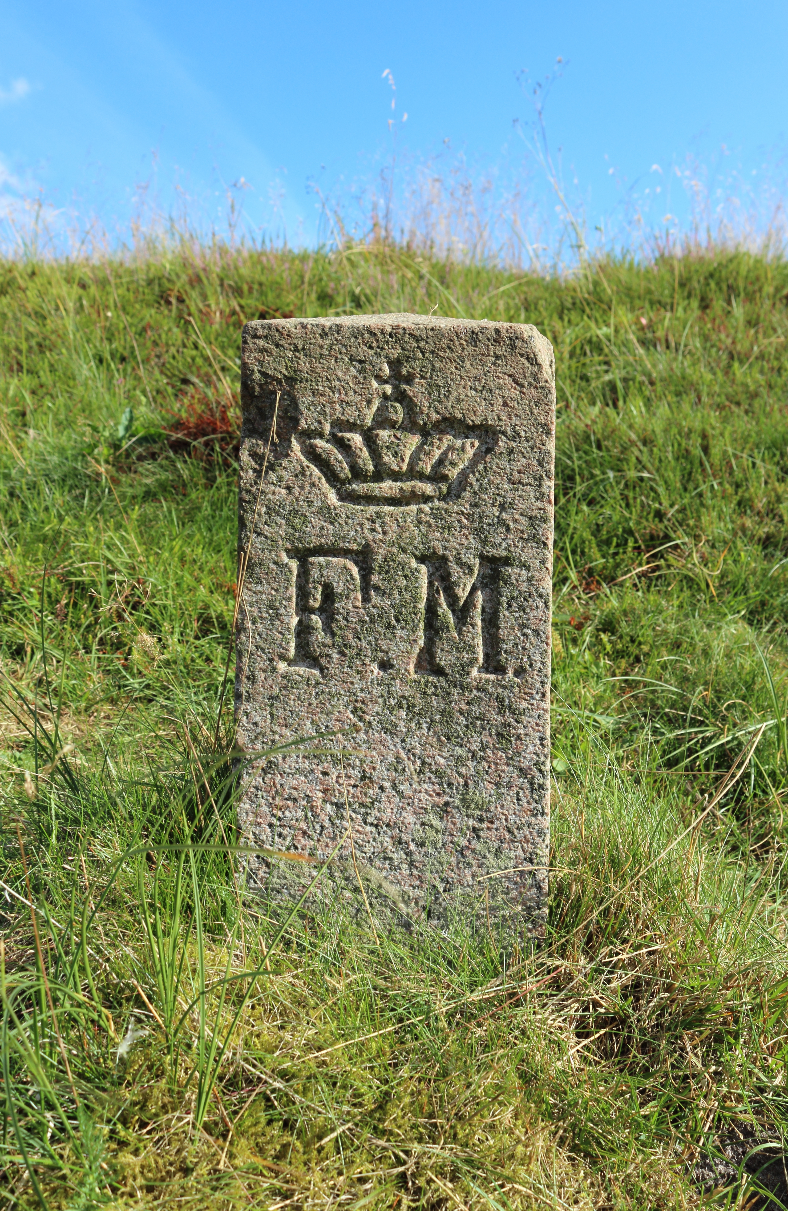 Marking stone on ancient tumulus with the letters "F.M." at Oldtidshøjene near Bruunshåb, Viborg area, Denmark. The letters mean "Fredet Minde" (preserved ancient momument).